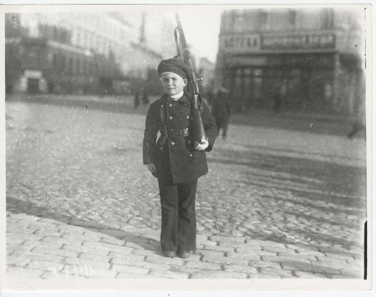 Young defender of Petrograd